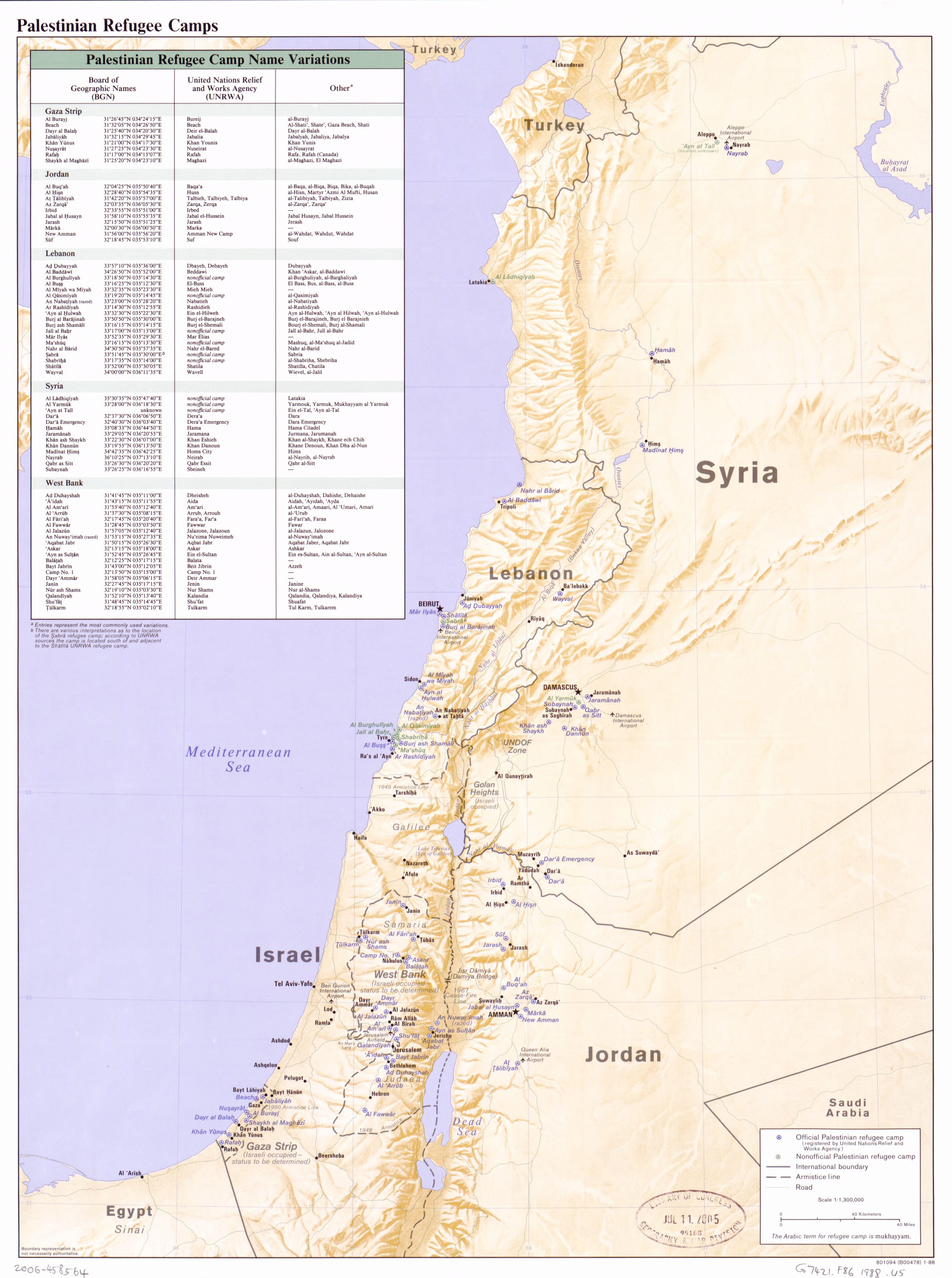 Relief shown by shading. Includes table of "Palestinian refugee camp name variations." "801094 (B00478) 1-88." Available also through the Library of Congress Web site as a raster image.